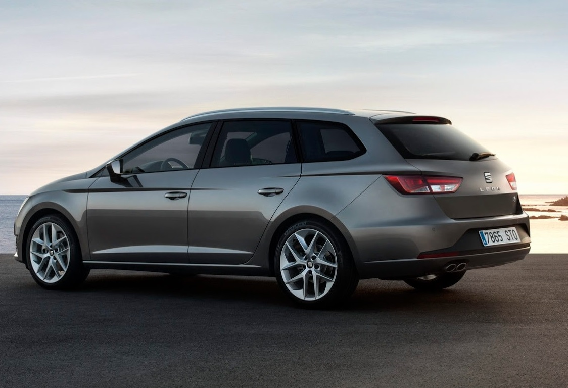 Back-Left side photo for the Seat Leon announced at the 2013 Frankfurt Motor Show